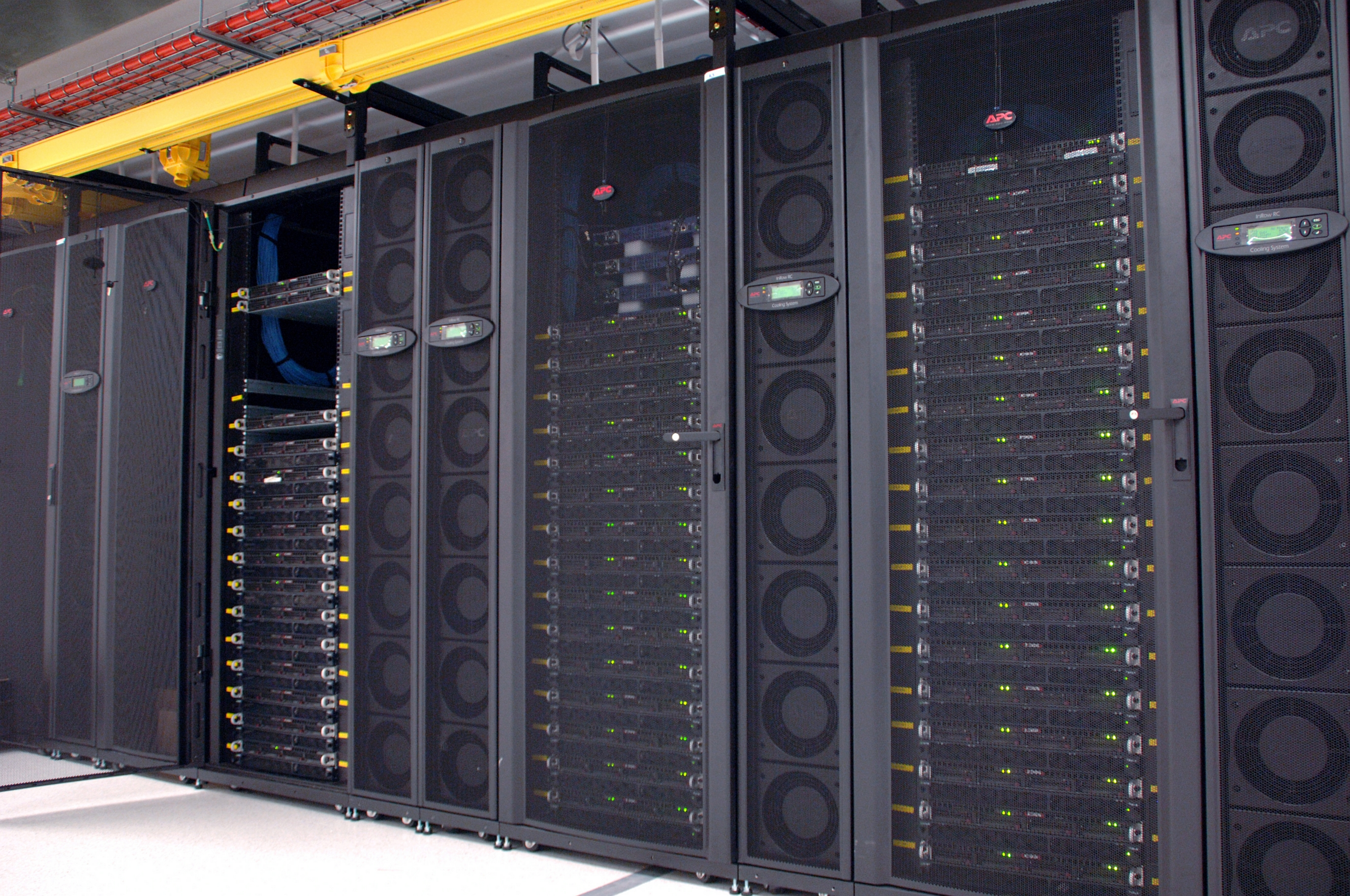 CSIRO's latest supercomputer cluster will be among the world's first to combine traditional CPUs with more powerful graphics processing units or GPUs, providing a world class computational and simulation science facility to advance priority CSIRO science. The GPU cluster contains 254 Quad core CPUs and 64 NVIDIA Tesla S1070s that allow the computer to multi-task using parallel processing to speed up performance. The new CSIRO high performance computing cluster will deliver up to 256 plus Teraflops of computing performance.